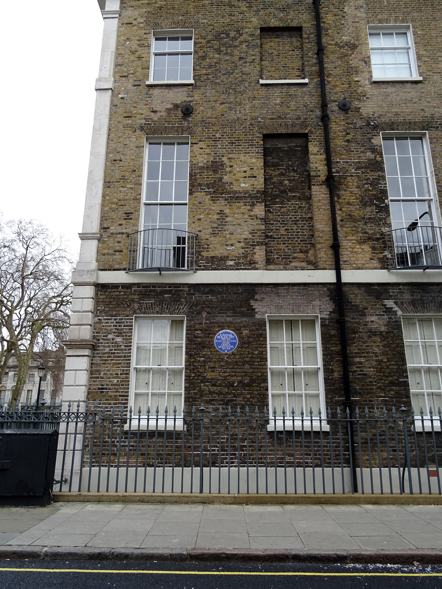 In this house Roger Fry 1866-1934 artist and art critic ran the Omega Workshops 1913-1919 (formerly the London Foot Hospital) - 33 Fitzroy Square, Fitzrovia, London W1P 6AY This image represents an Open Plaques entry #3698.